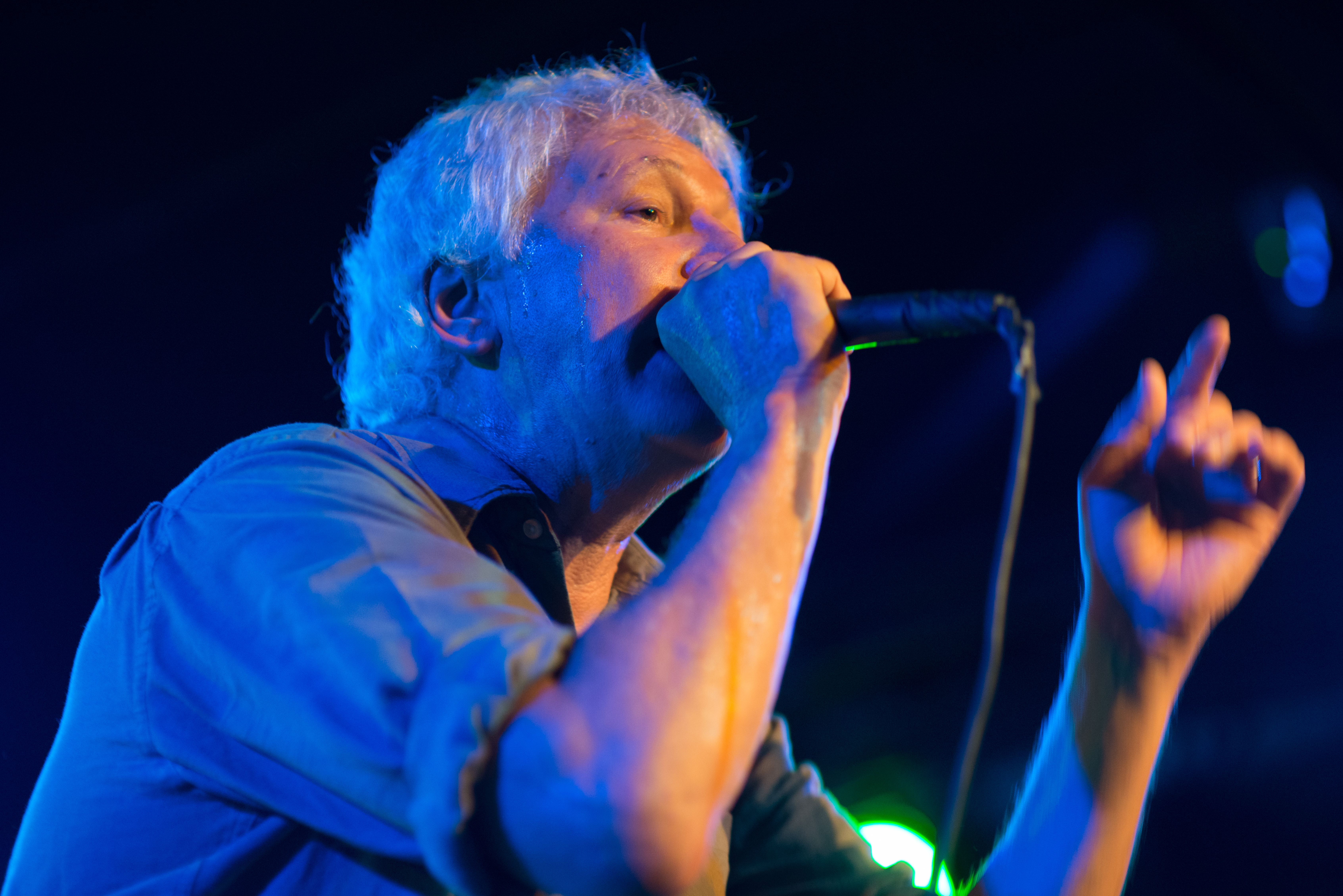 Mitch Mitchell performing in Solana Beach, California in 2014